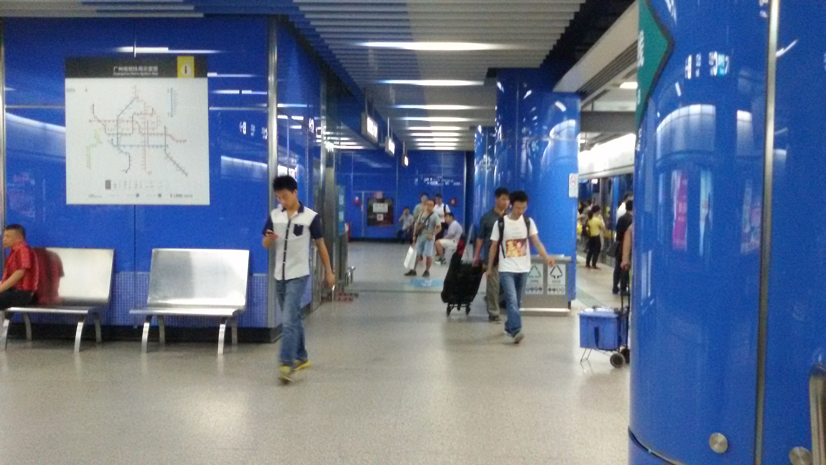 Station Platform for Line 4 at Wanshengwei Station in Guangzhou Metro. 粵語: 廣州地鐵，萬勝圍站嘅4號綫月台。